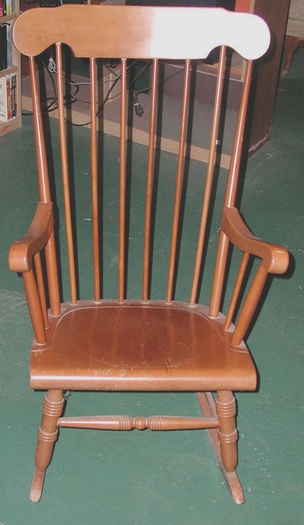 Picture of a rocking chair